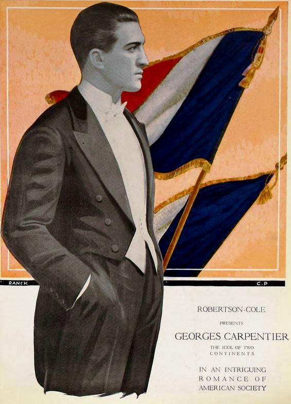 Ad for the American film The Wonder Man (1920) with Georges Carpentier, on page 3929 of the May 8, 1920 Motion Picture News.